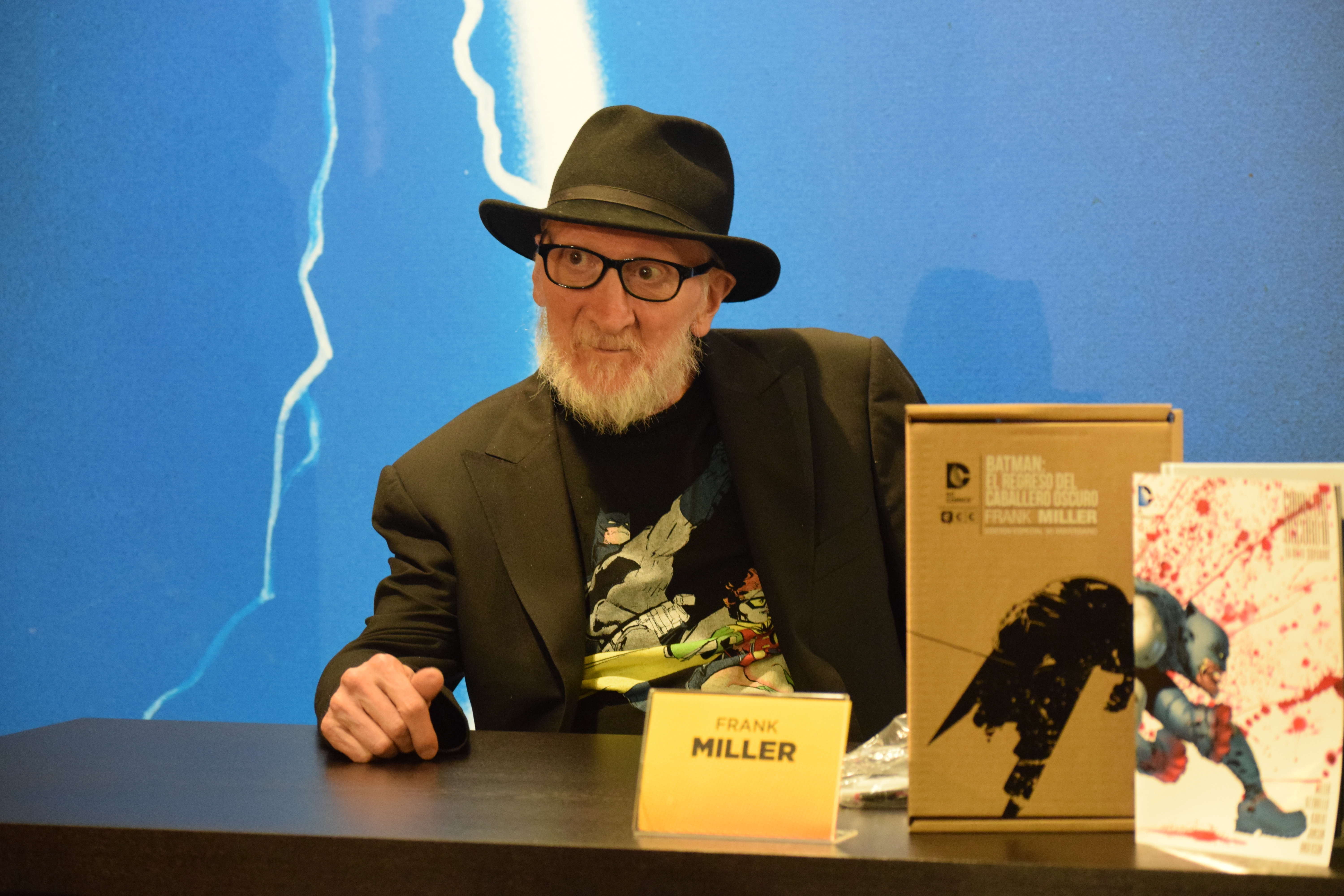 The American cartoonist Frank Miller at the Barcelona International Comics Convention (2016), ready to sign comics to his fans.